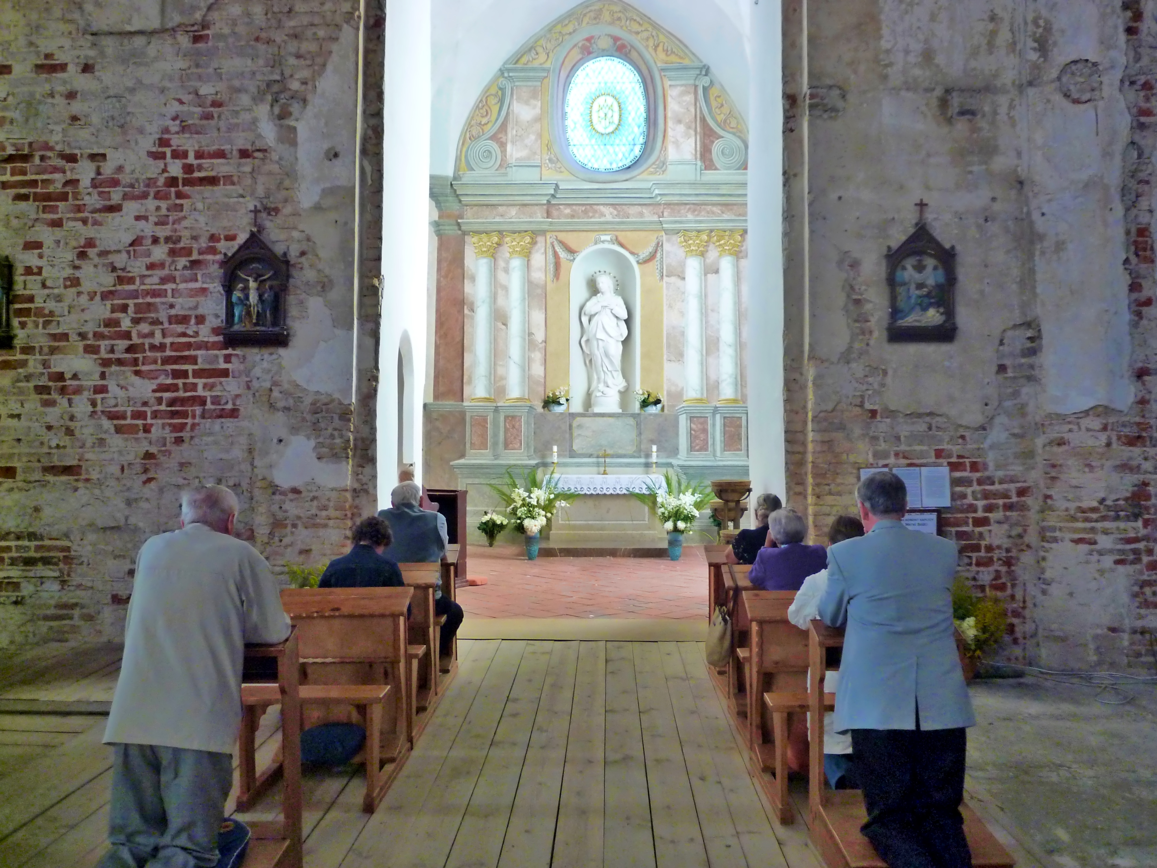 People in player in the chapel of Our White Lady